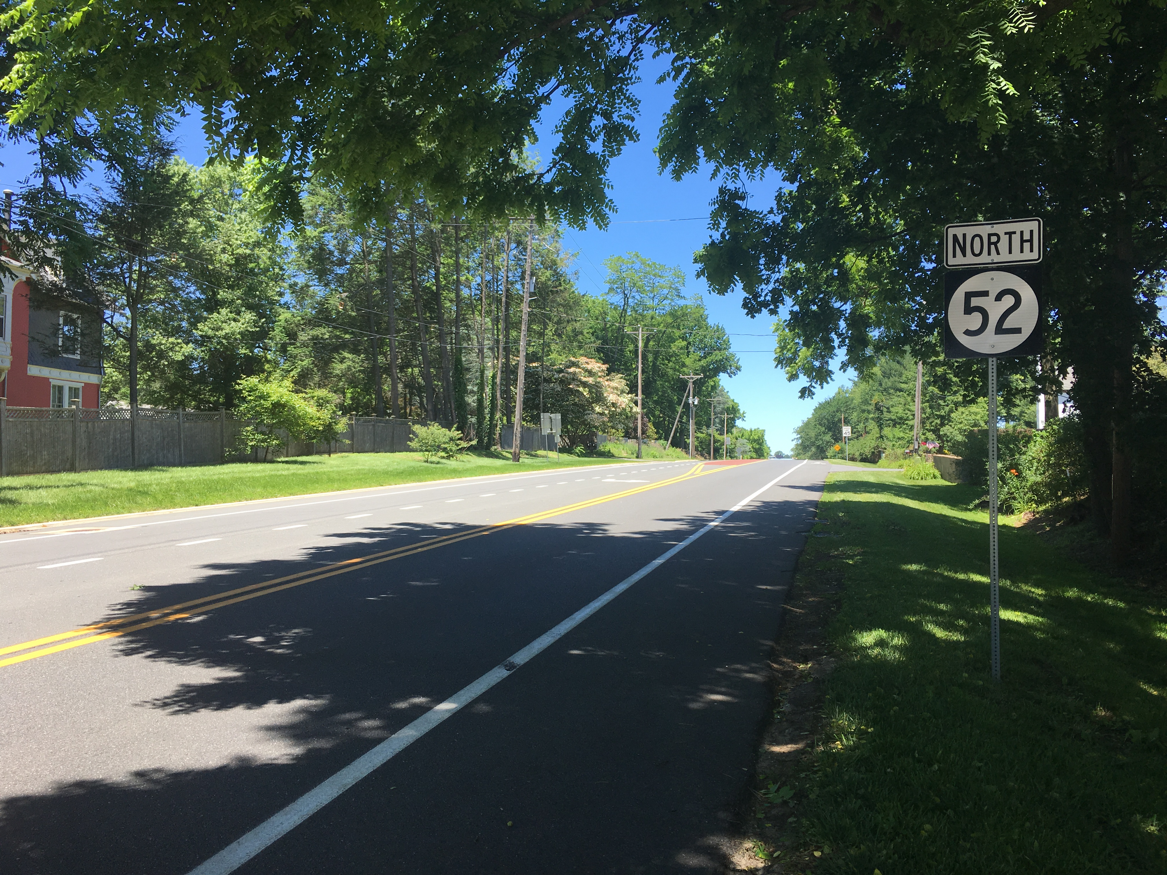 Northbound Delaware Route 52 (Kennett Pike) past the intersection with the southern terminus of Delaware Route 82 (Campbell Road) and Kirk Road near Greenville, Delaware